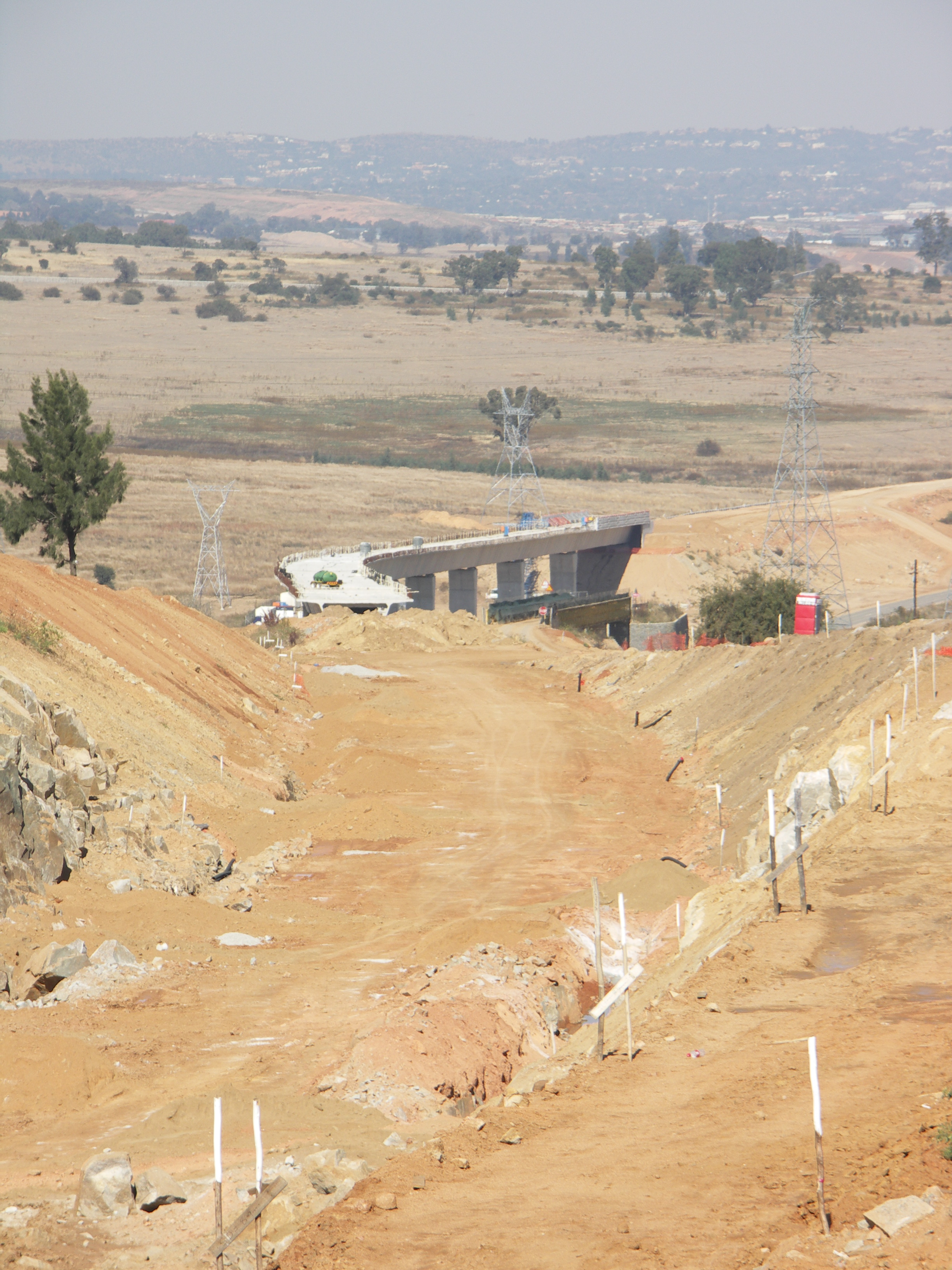 Gautrain viaduct construction in Midrand